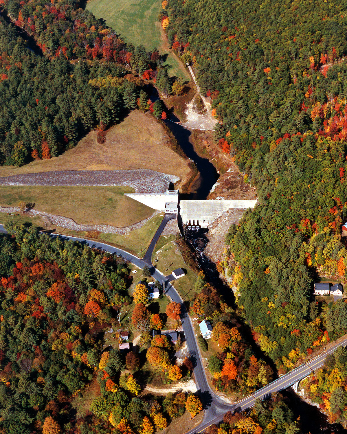 Blackwater Dam on the Blackwater River near the town of Webster in Merrimack County, New Hampshire, USA. The U.S. Army Corps of Engineers constructed the dam for flood control on the Blackwater and Contoocook Rivers.